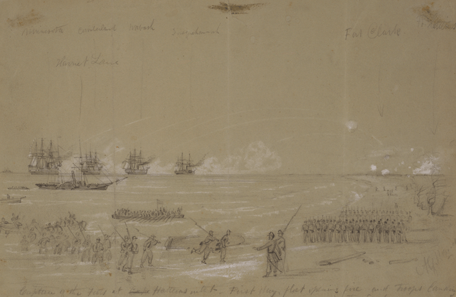 Capture of the Forts at Cape Hatteras inlet-First day, fleet opening fire and troops landing in the surf